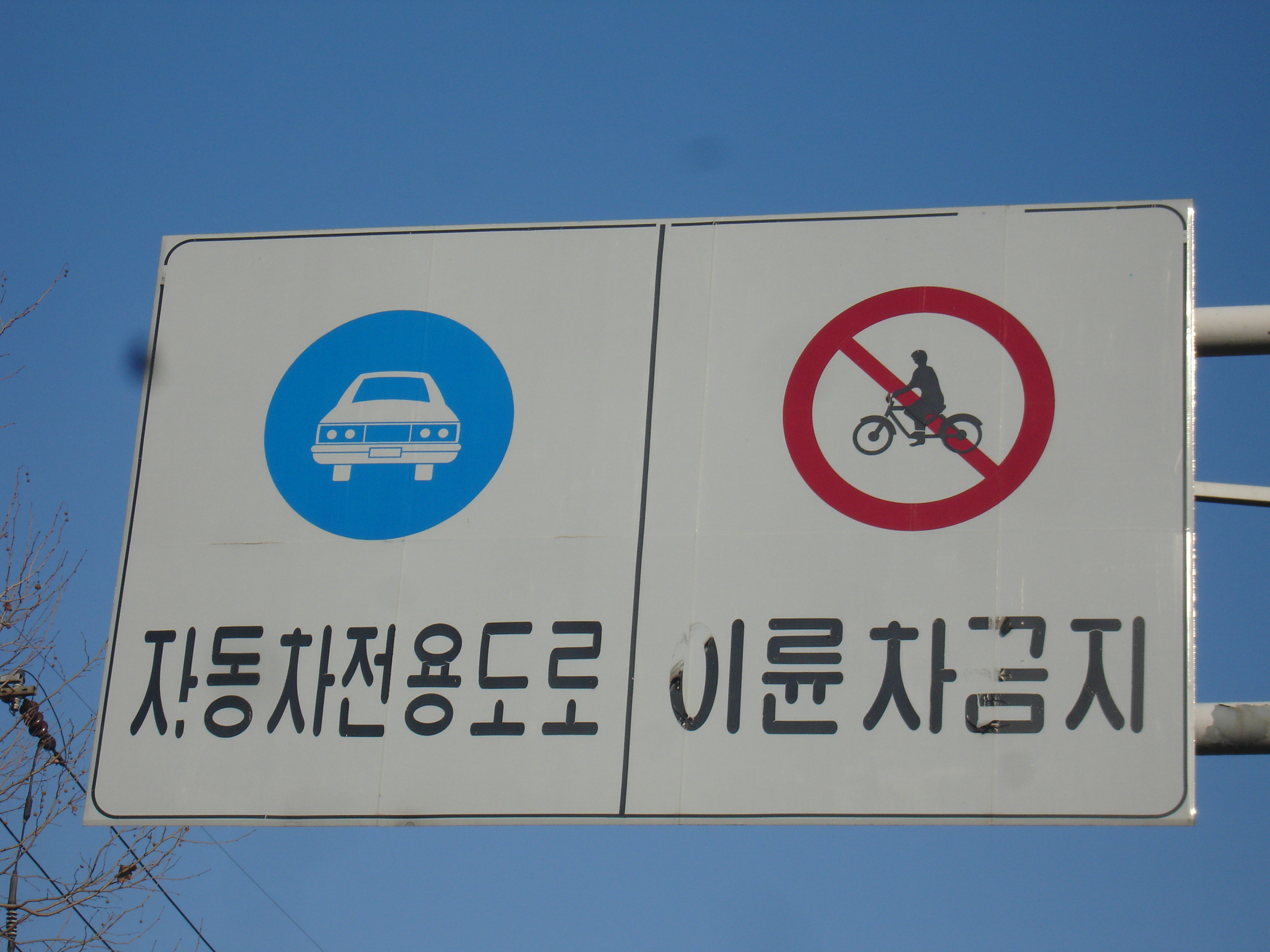 Korea Sign - Vehicles Only and No Thoroughfare for Motorcycles and Mopeds (old version)